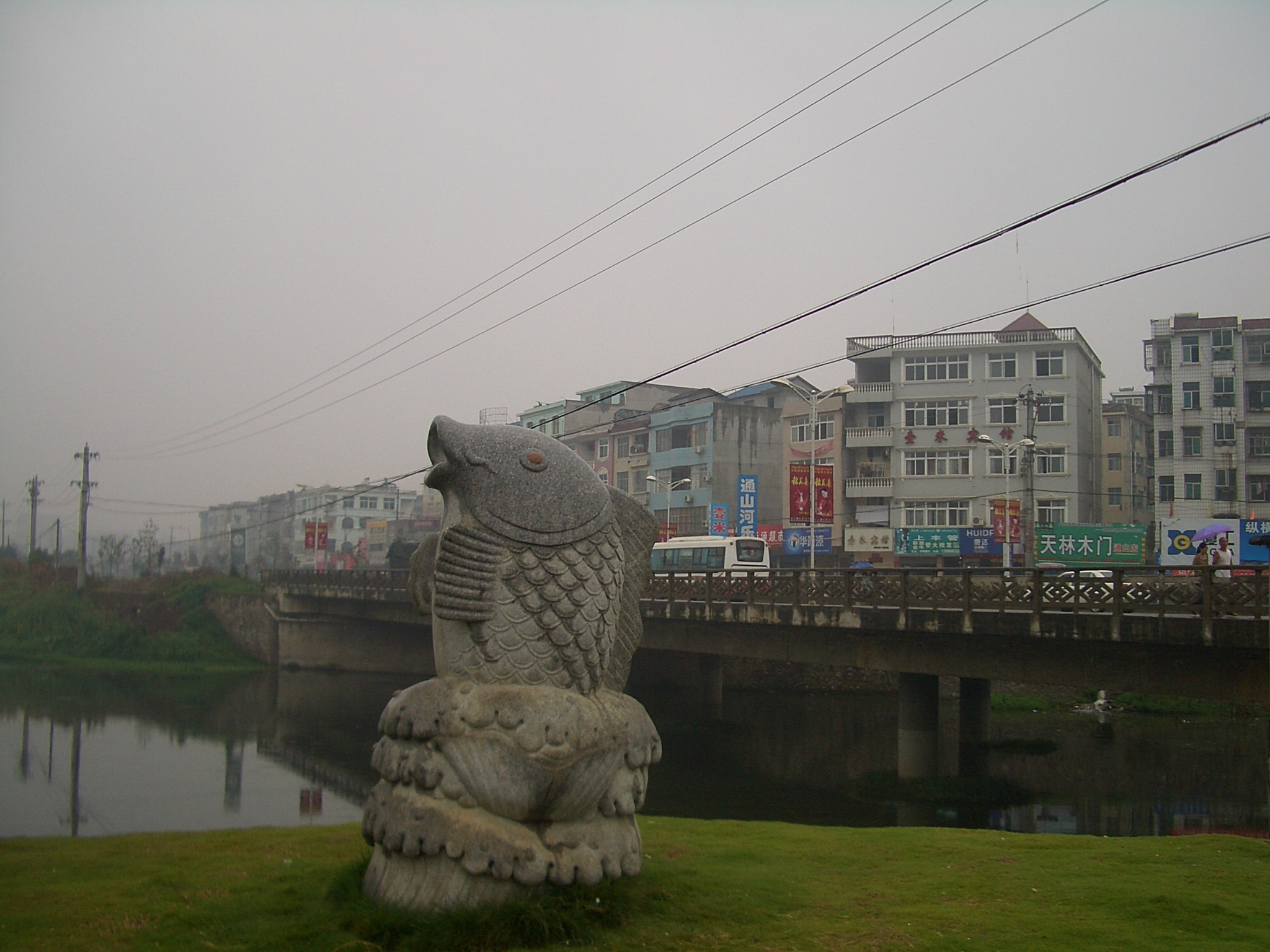 Downtown Tongyang Town, the county seat of Tongshan County, Hubei. The embankment of a tributary of the Fushui River is decorated with sculptures